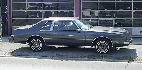 1982 Imperial personal luxury coupe